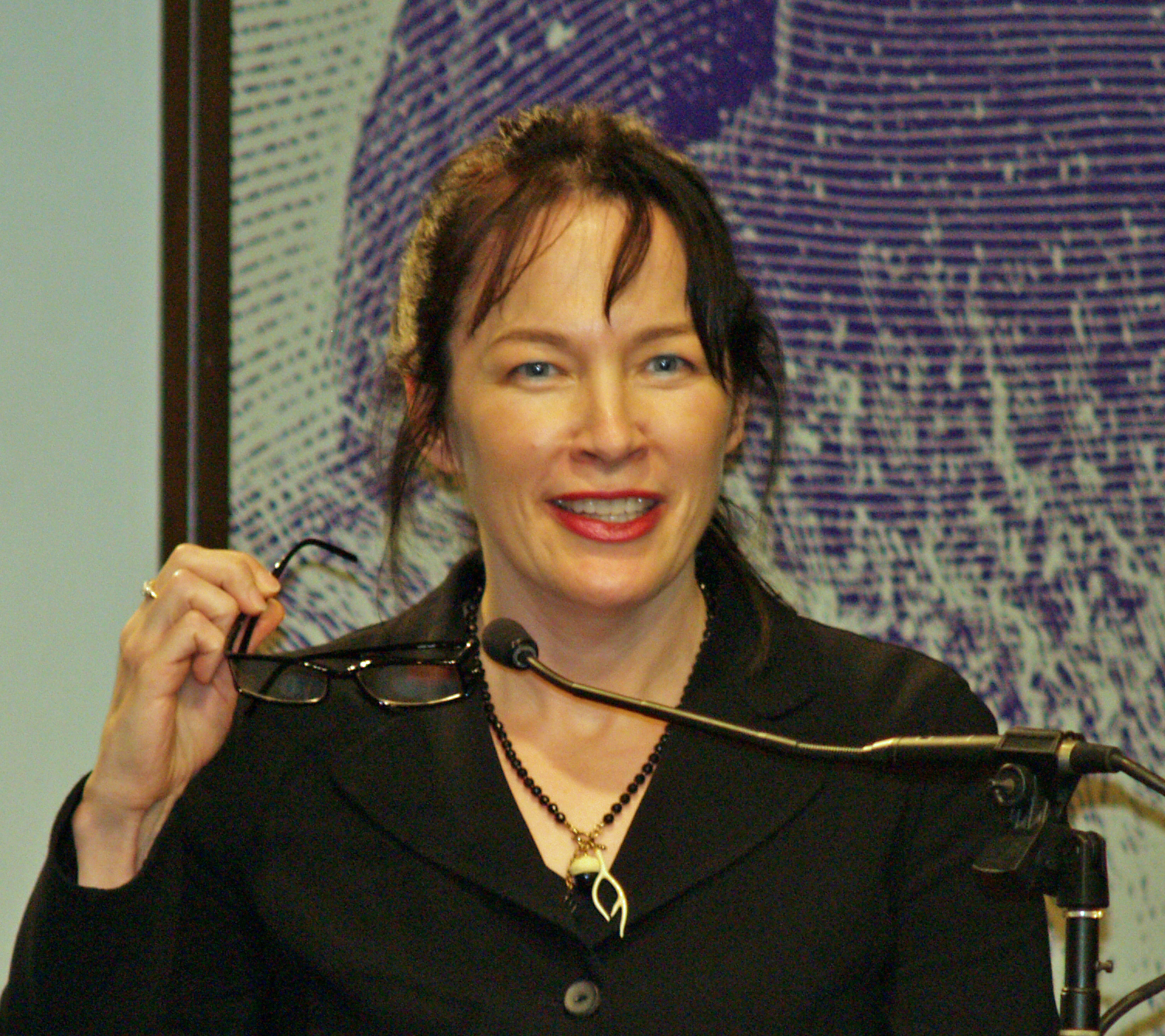 Alice Sebold in New York City.The photographer dedicates this photograph to Daniel Case, who requested it for Ms. Sebold's Wikipedia article, for his many improvements to the Wikipedia project.